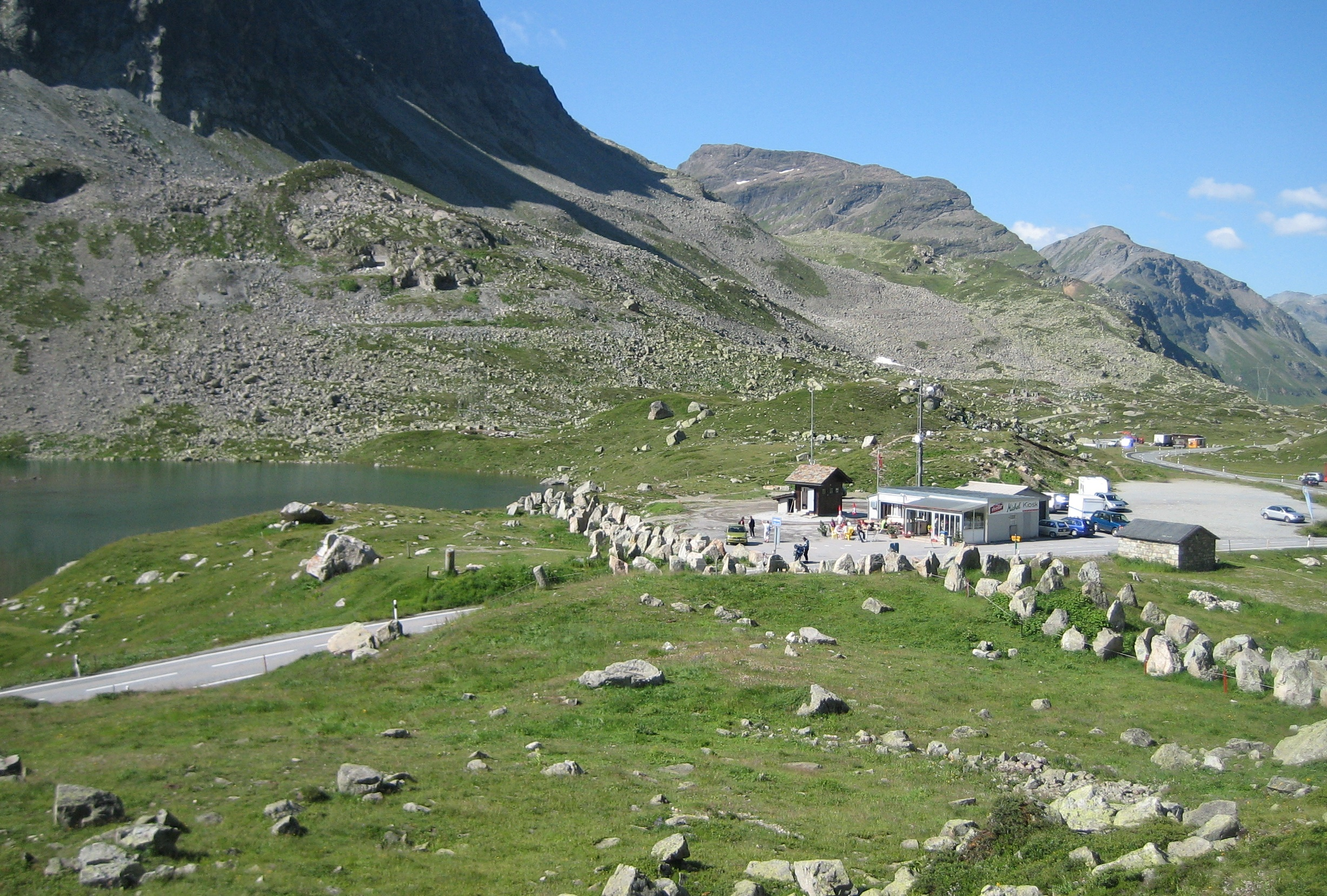 Julierpasshöhe direction west